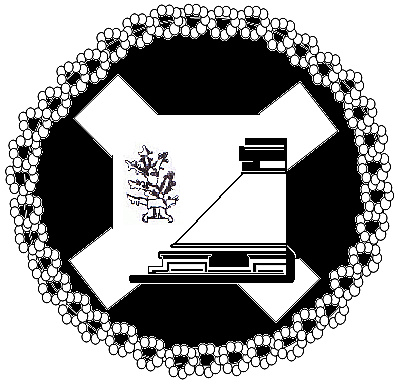 Coat of Arms of Santa Cruz Xoxocotlan, Oaxaca